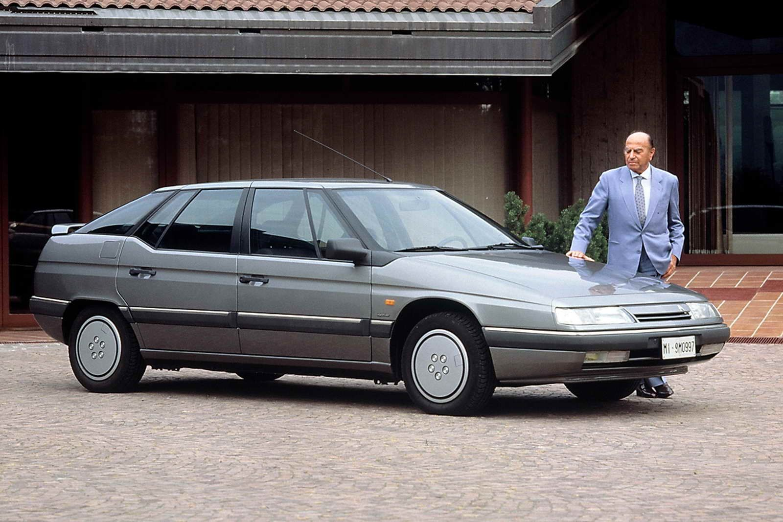 Citroen XM launched 1989 and designer Nuccio Bertone